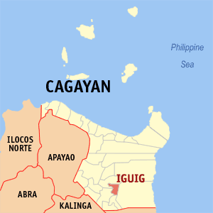 Map of Cagayan showing the location of Iguig